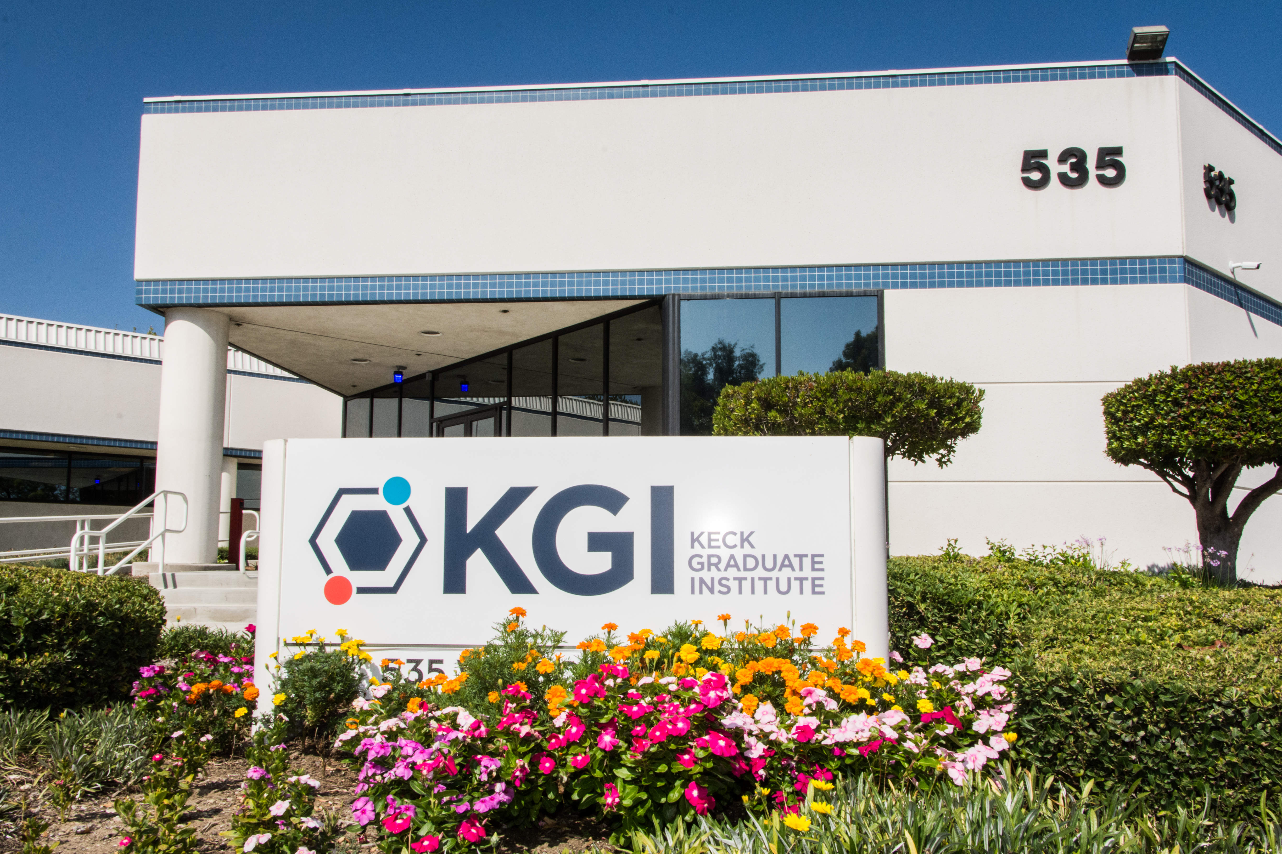 Keck Graduate Institute 2018